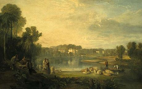 Turner's Popes Villa At Twickenham